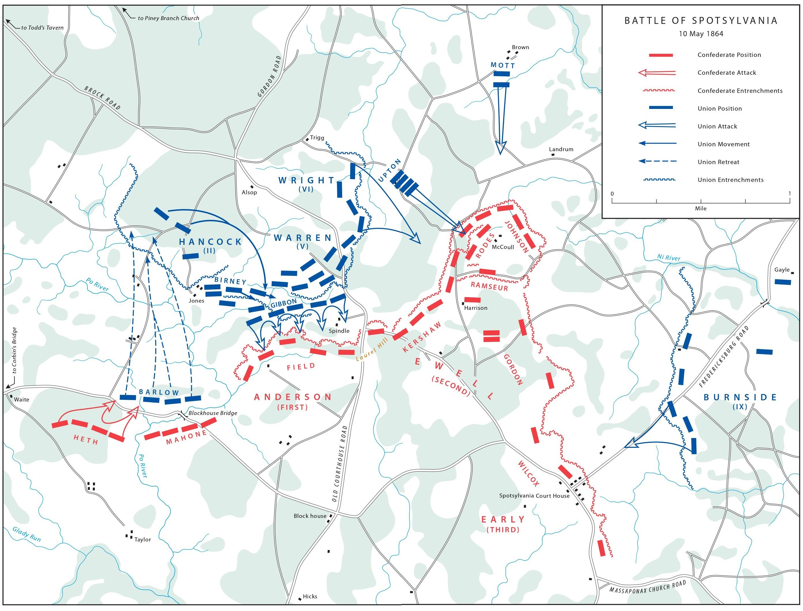 Battle of Spotsylvania Court House (May 8-21, 1864). Situation May 10.